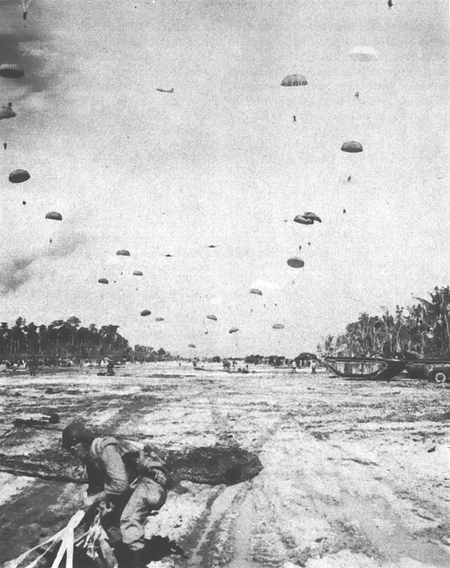 PARATROOPERS LANDING ON NOEMFOOR. Note equipment along the airstrip (3 July 1944)